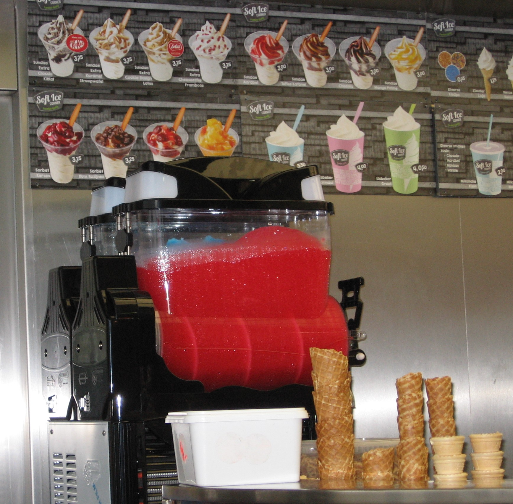 Slush puppy ice beverage machine, Friethuys Nova, Winkelcentrum Nova (shopping mall), Kanaleneiland, Utrecht. Slush drink machine.